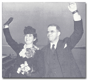 Waitstill and Martha Sharp, on the departure to Czechoslavakia, Feb. 4th, 1939.